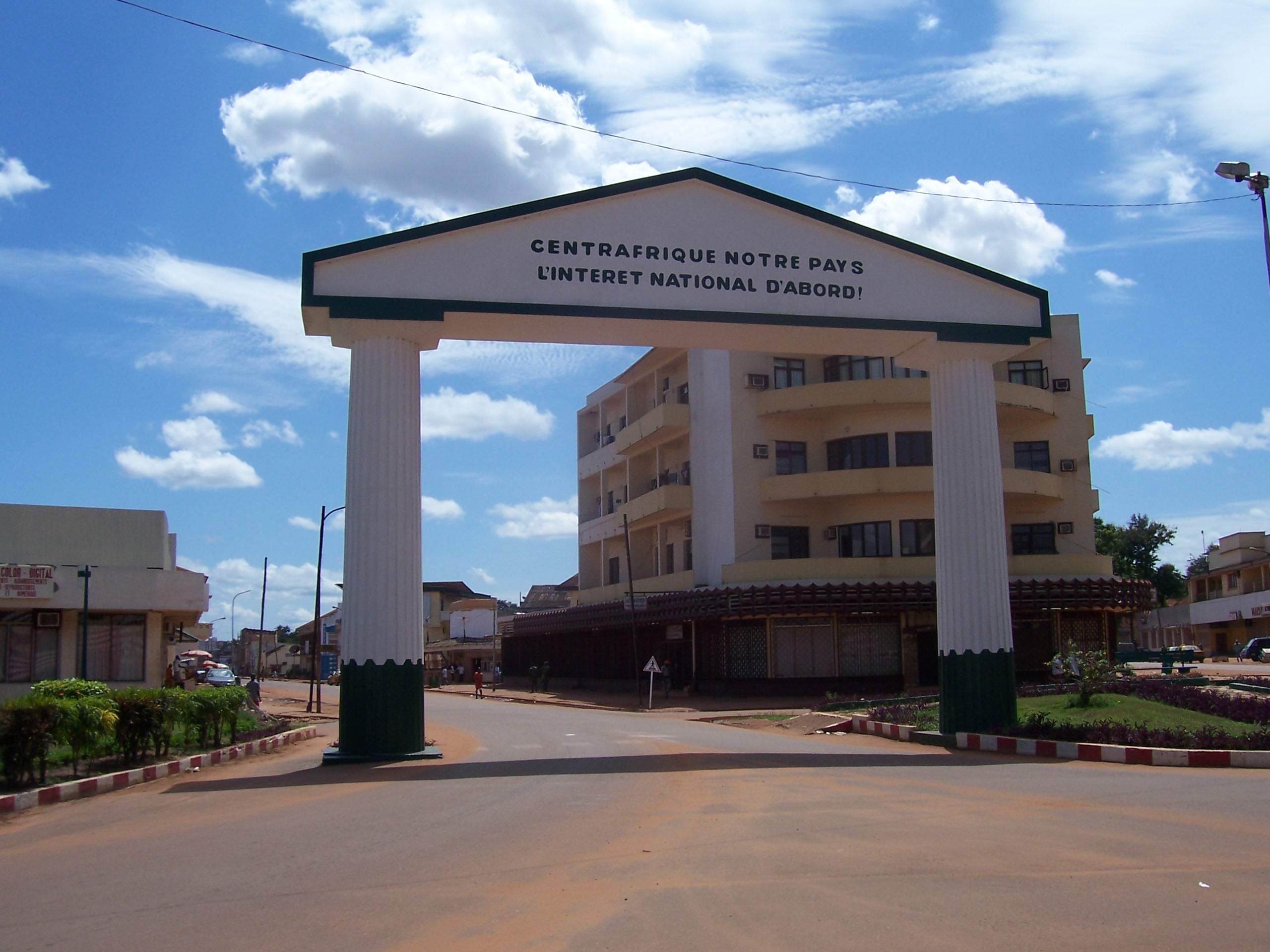 A view of the college in Bangui — in the Central African Republic.